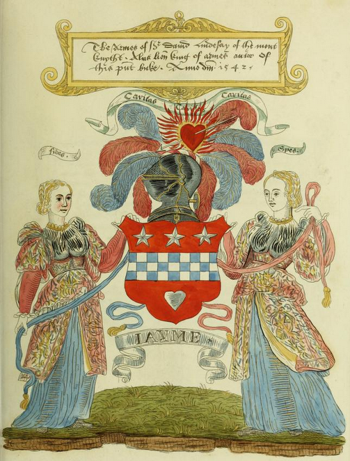 Coat of arms of Sir David Lindsay of the Mount, as illustrated in the Lindsay of the Mount Roll. Blazon: Gules, a fess chequy azure and argent between in chief three stars in fess and in base a man's heart of the last.